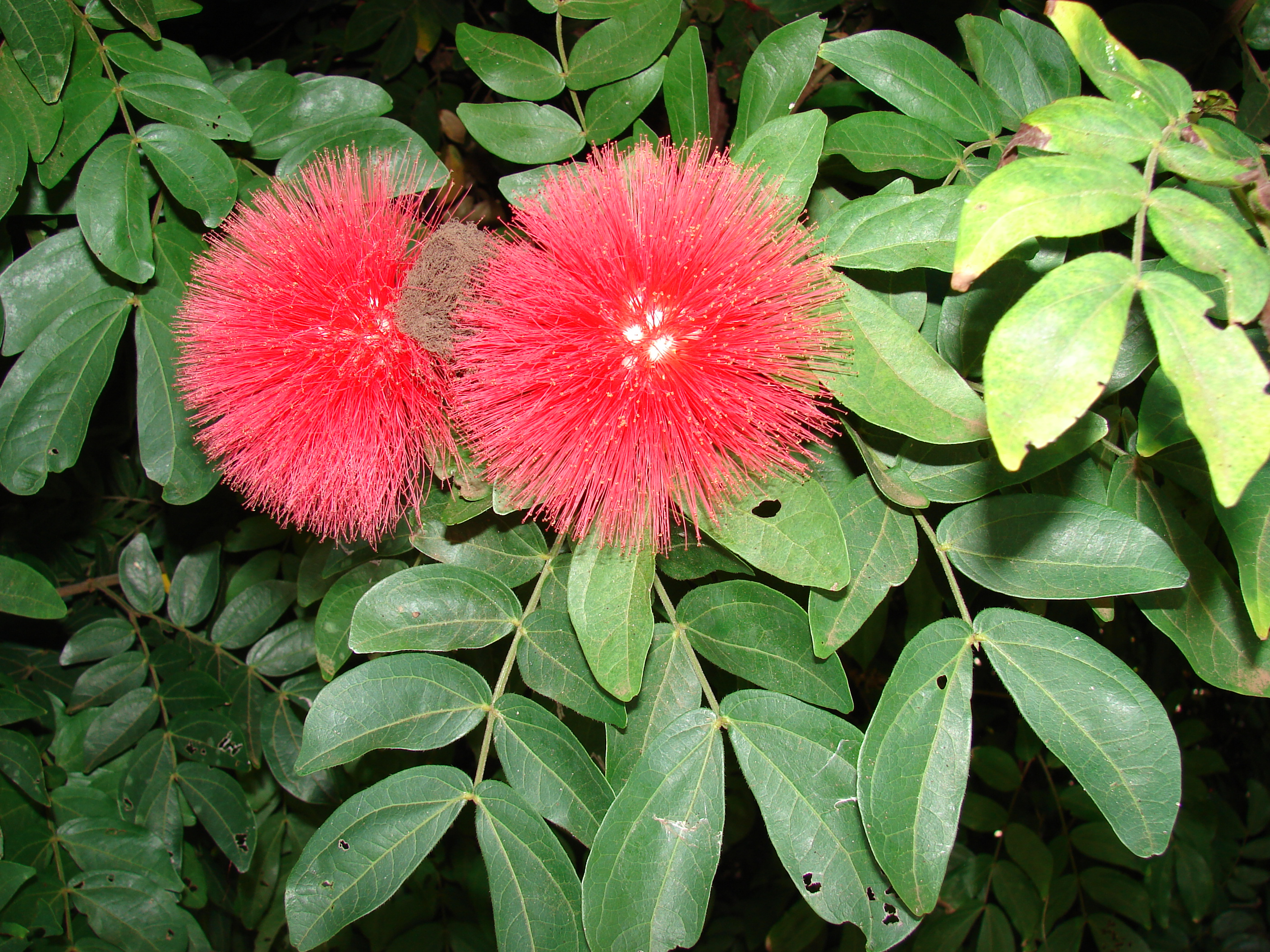 Calliandra haematocephala (flowers and leaves). Location: Maui, Enchanting Floral Gardens of Kula